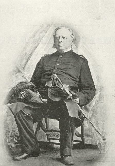 American abolitionist and social reformer Henry Ward Beecher